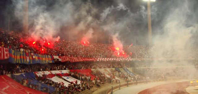 Al Ittihad of Libya Fans celebrating During the CAF Champions League match Against Far of Rabat (2-0)